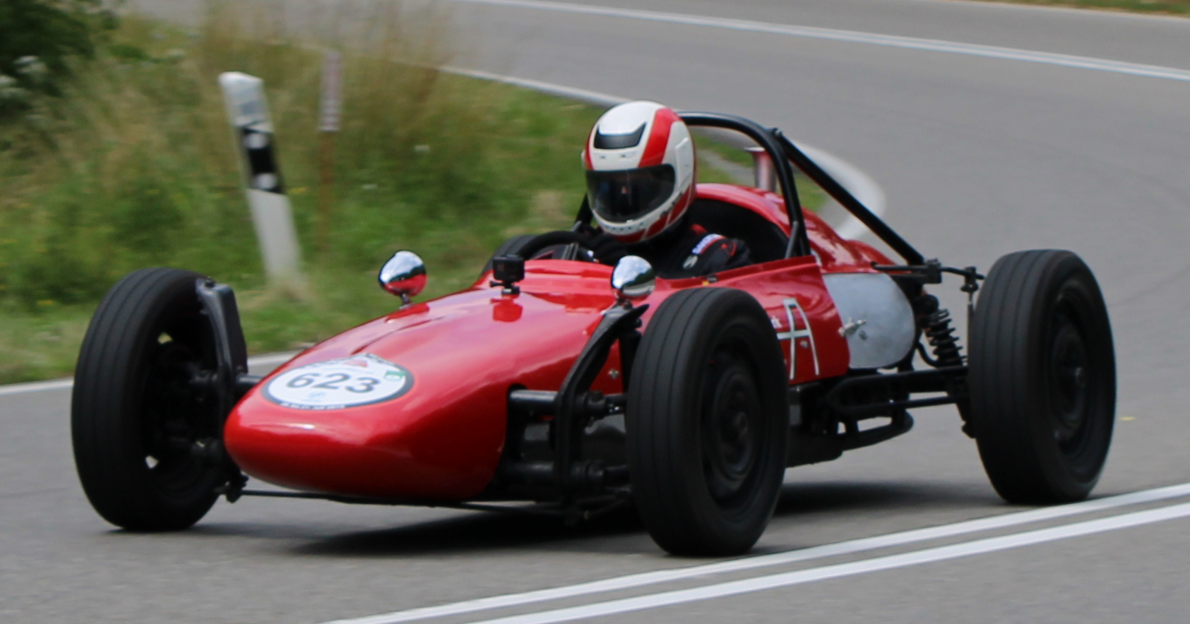 Fuchs Formel V at Solitude Revival 2019